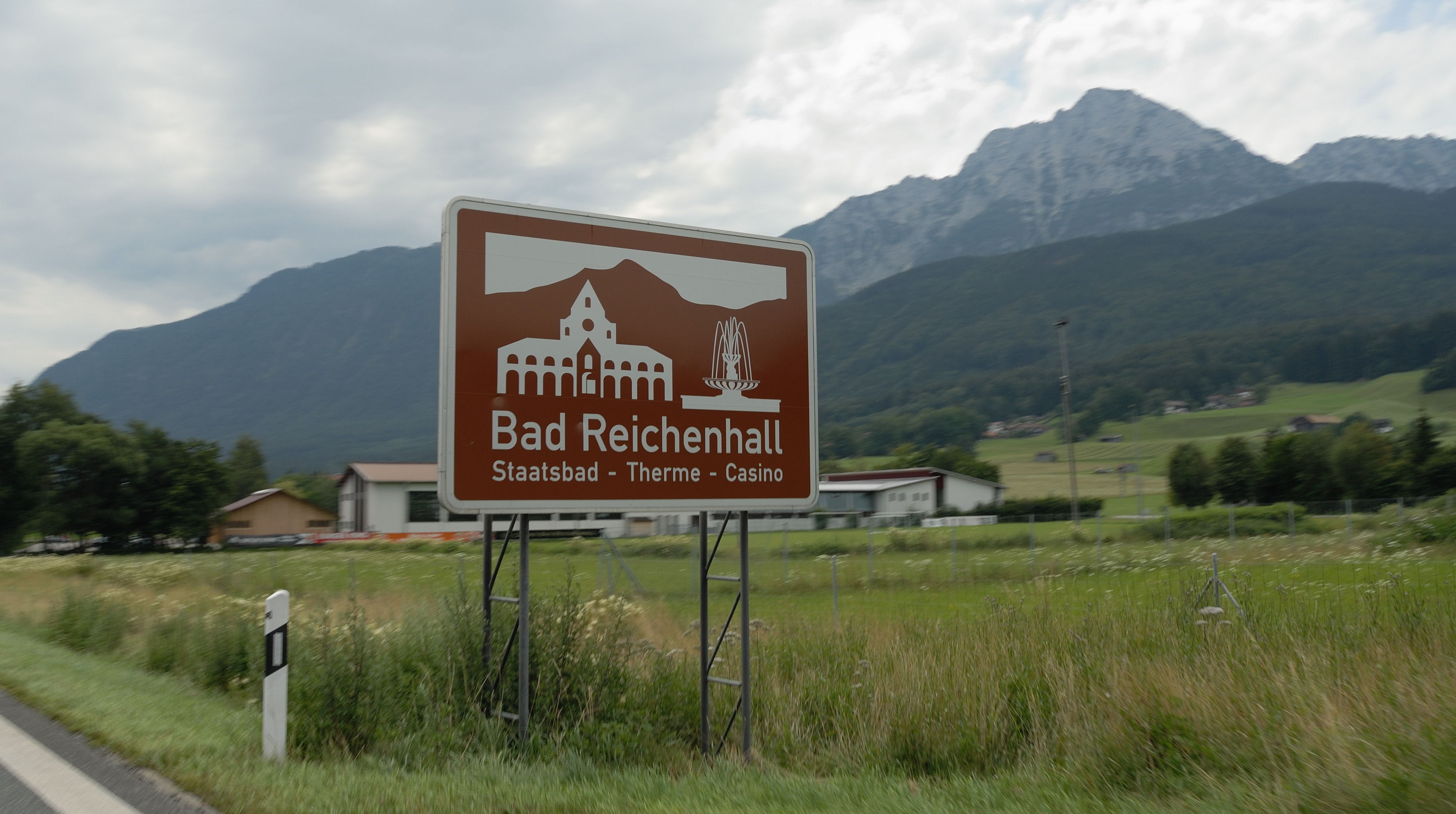 Road sign for Bad Reichenhall. Road shot from A 8.